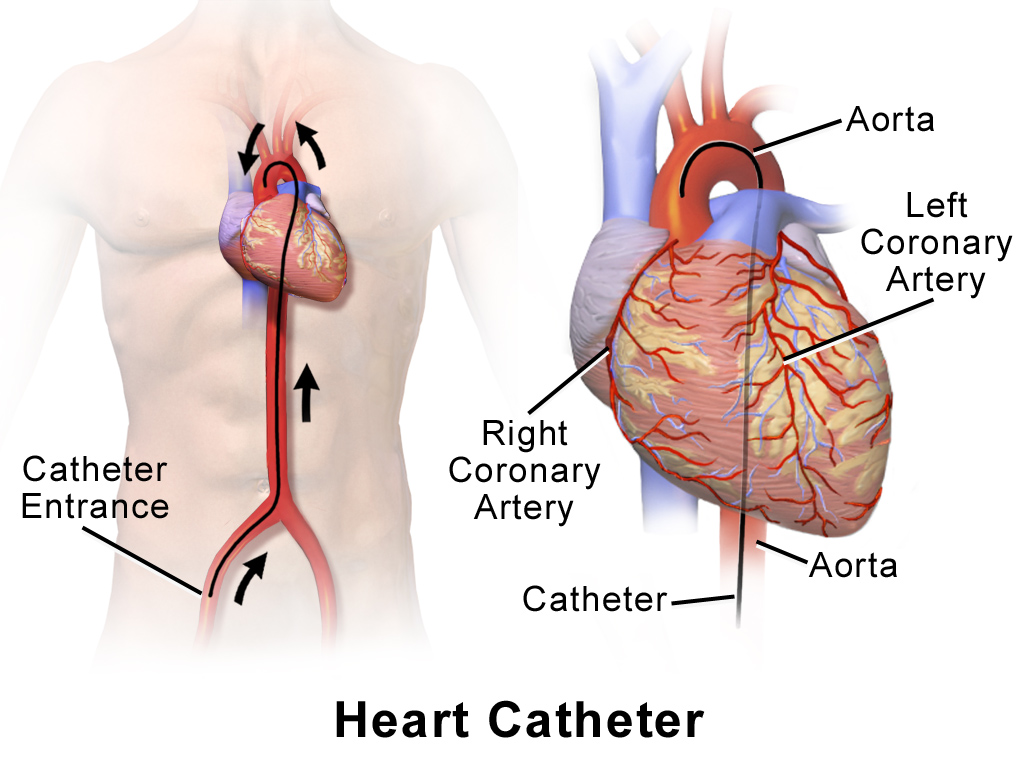 Heart Catheter. Animation in the reference.[1]